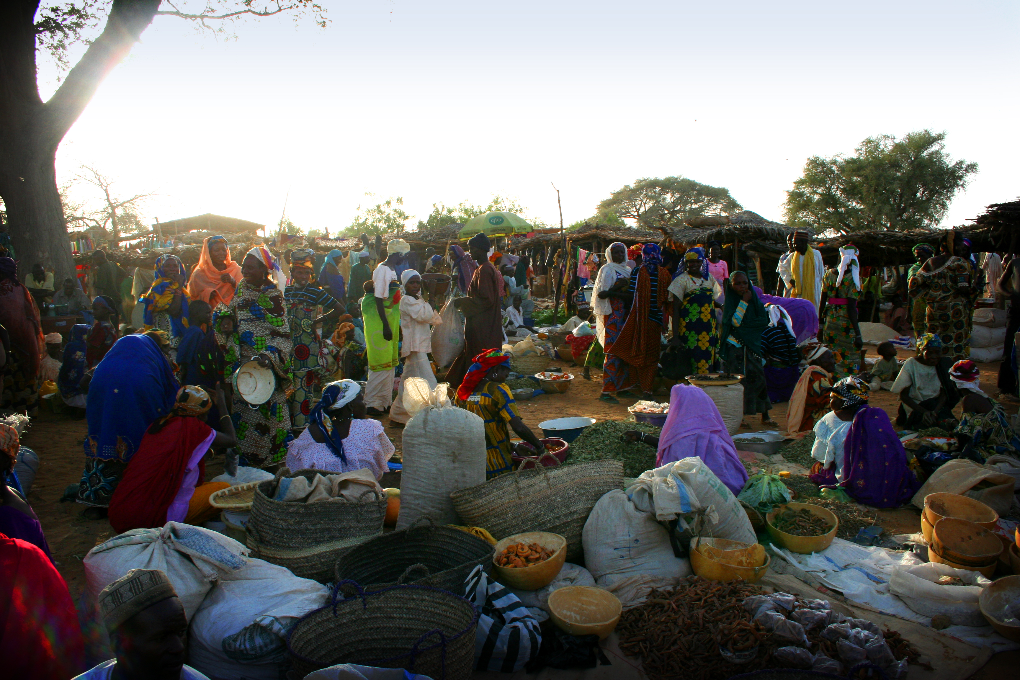 March 18, 2009 - All the colors, all the people - lovely!